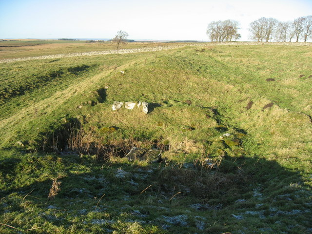 The west gate of Brocolitia